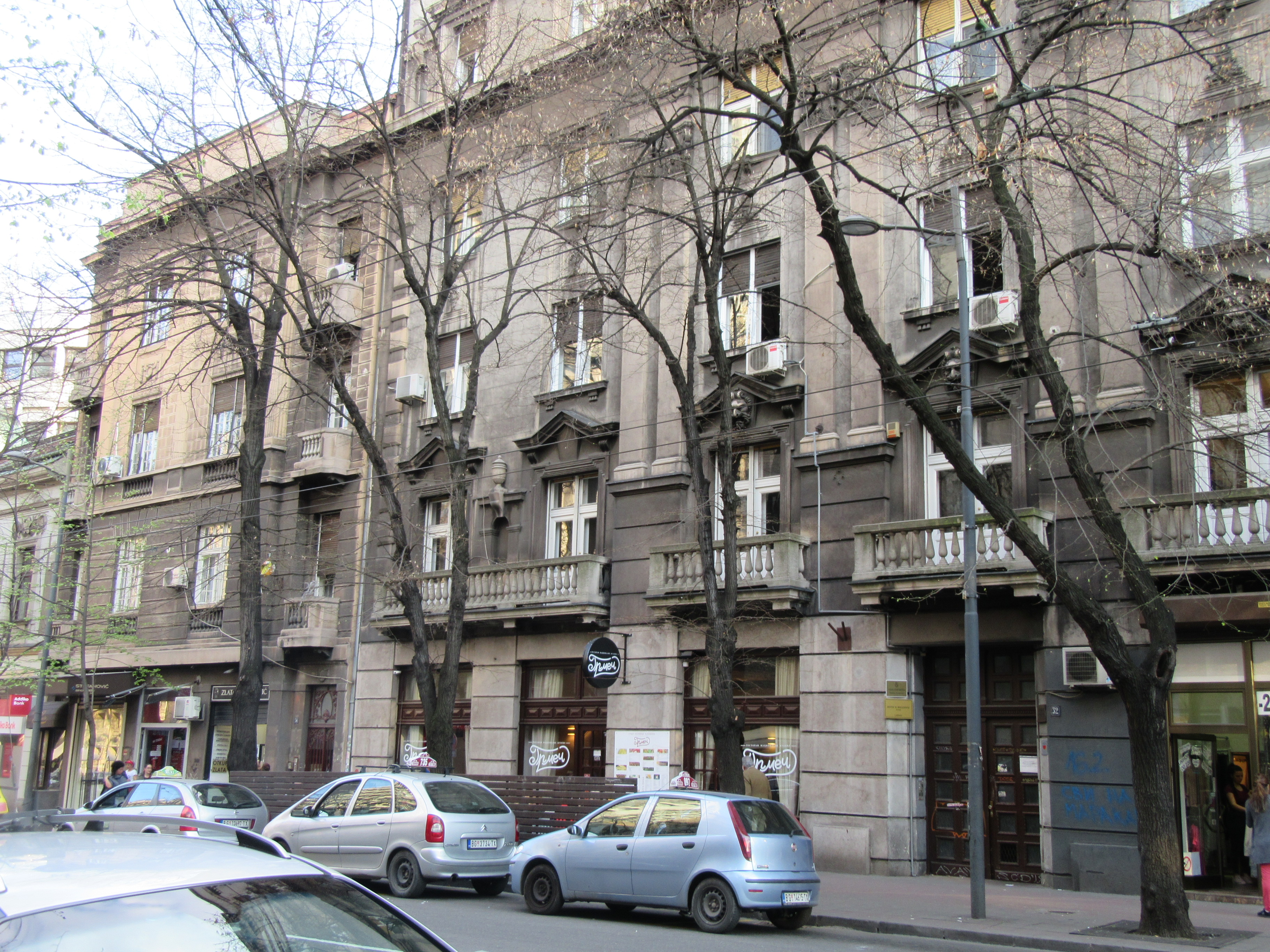 Makedonska street, Belgrade, Serbia, 2019. Srpski (latinica): Makedonska ulica, Beograd, Srbija, 2019.